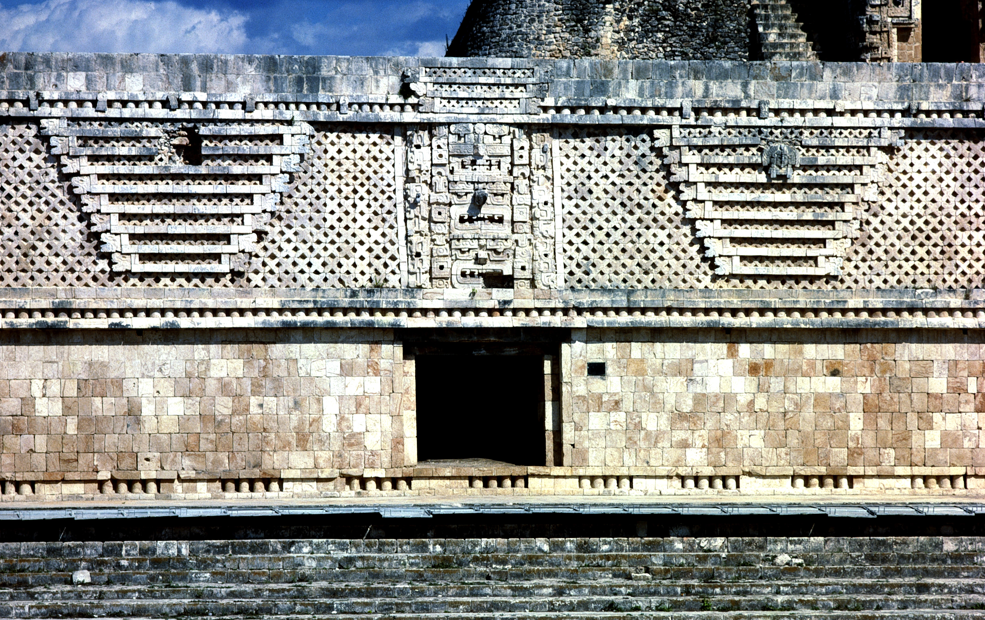 Uxmal, Yucatan, Mexico: Monjas, East building